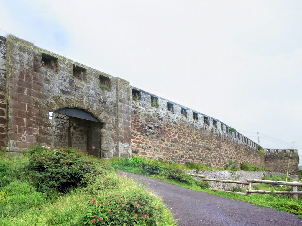 High Knoll Fort (1874) on a hilltop in the center of St Helena Island was well protected by high stone walls. The most dangerous Boer prisoners were held here during the Anglo-Boer War.